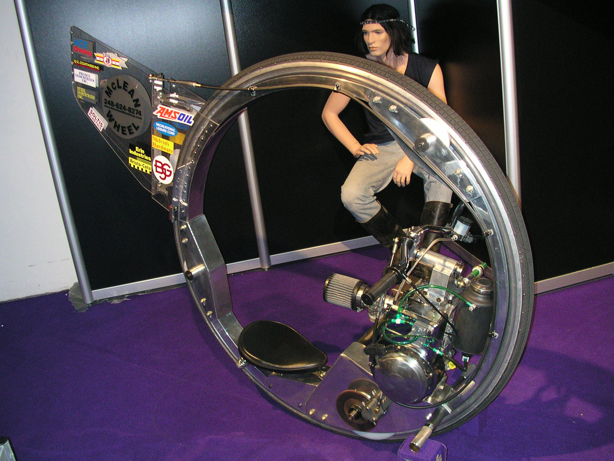 McLean Monowheel